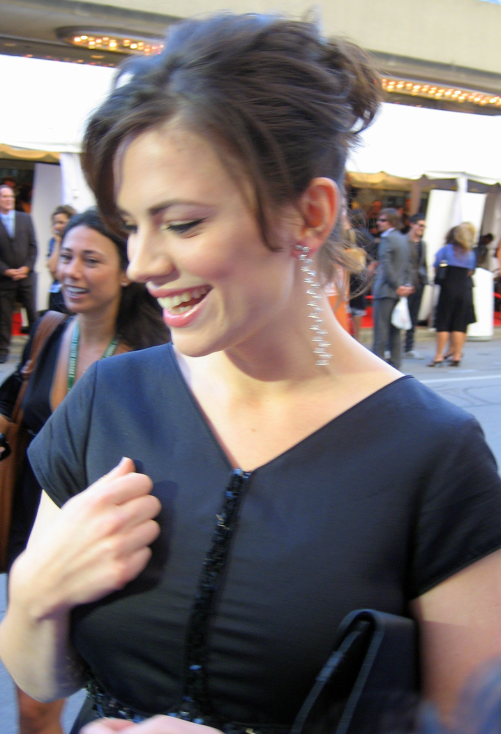 Hayley Atwell at Cassandra's Dream's premiere at Toronto Film Festival 2007